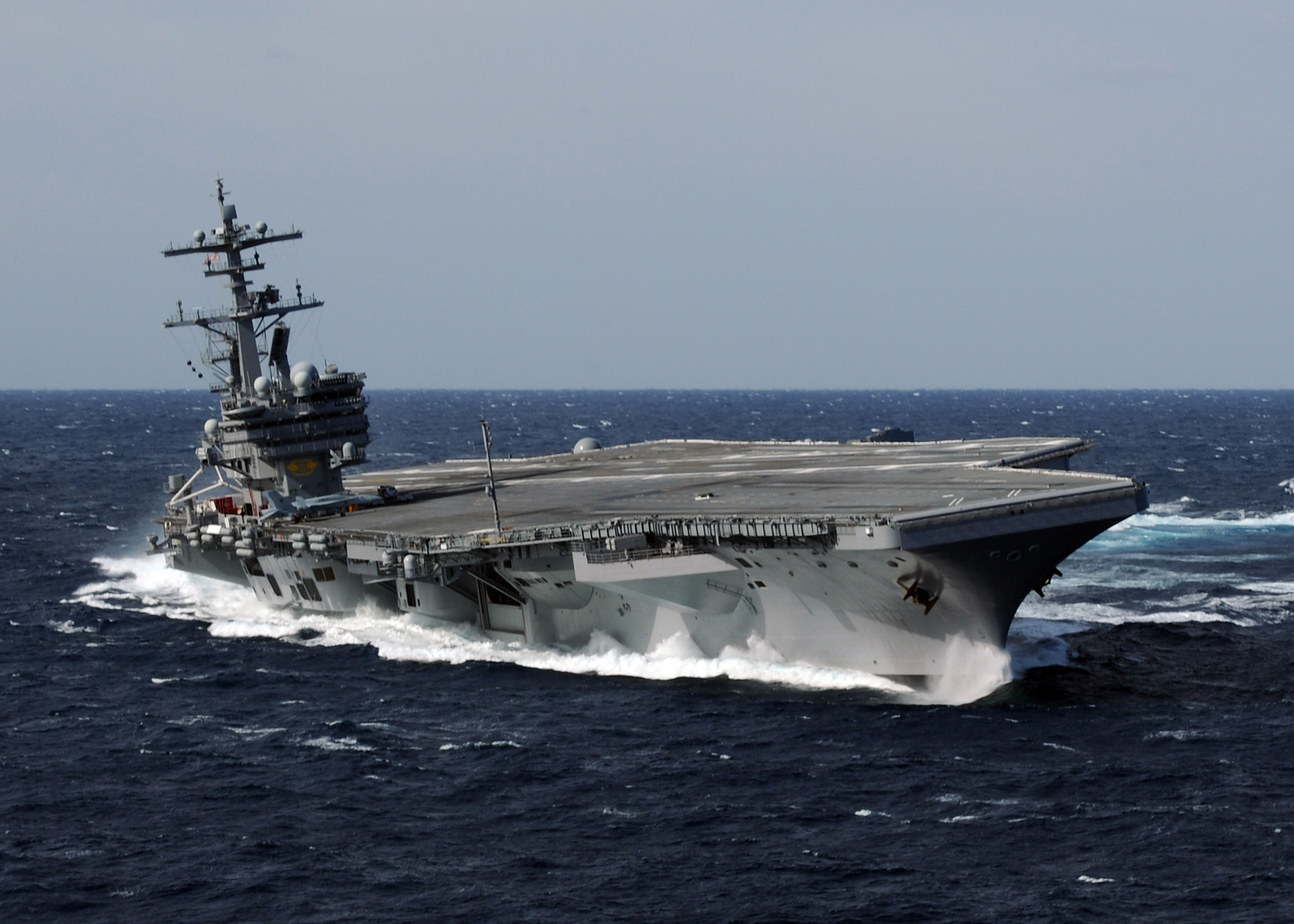 ATLANTIC OCEAN (Feb. 27, 2010) The aircraft carrier USS George H.W. Bush (CVN 77), the Navy's 10th and final Nimitz-class aircraft carrier, heels hard to starboard during high-speed turns. George H.W. Bush is underway supporting fleet training operations. (U.S. Navy photo by Mass Communication Specialist 2nd Class Micah P. Blechner/Released)